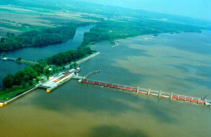 lock and dam 25